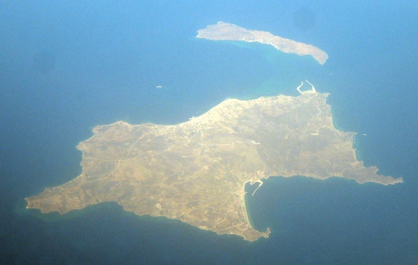 Avşa Island (also known as Türkeli island), Turkey (located in the Marmara Sea)